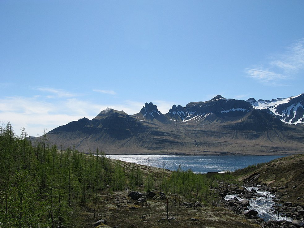 Súlur, Stöðvarfjörður, Iceland